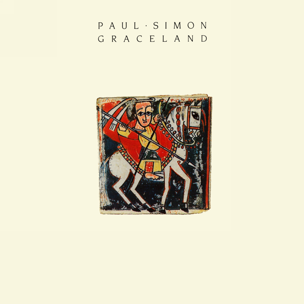 Front cover of the Paul Simon music album Graceland.